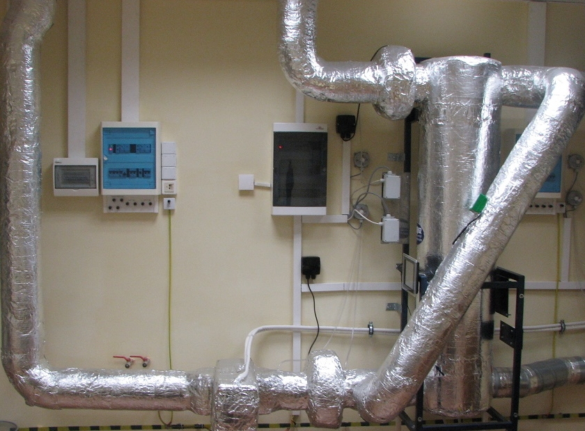 Laboratory stand of HVAC systems at the Department of Electrical Apparatus at Lodz University of Technology